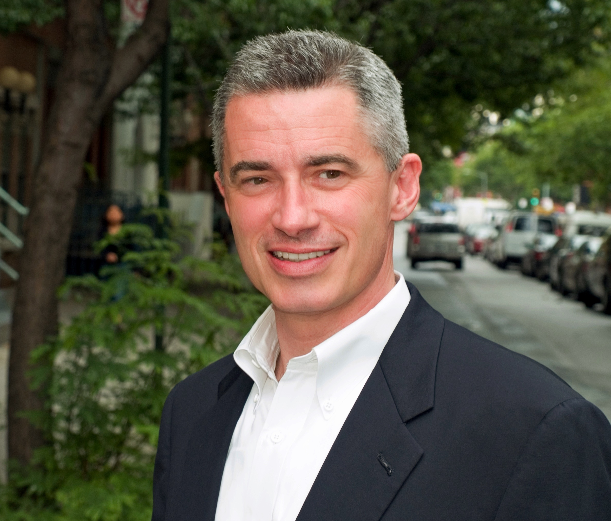 Former New Jersey Governor Jim McGreevey volunteering for Exodus Transitional Community at the Church of Living Hope in Harlem, New York City. Photographer's blog post about Jim McGreevey and his new life.